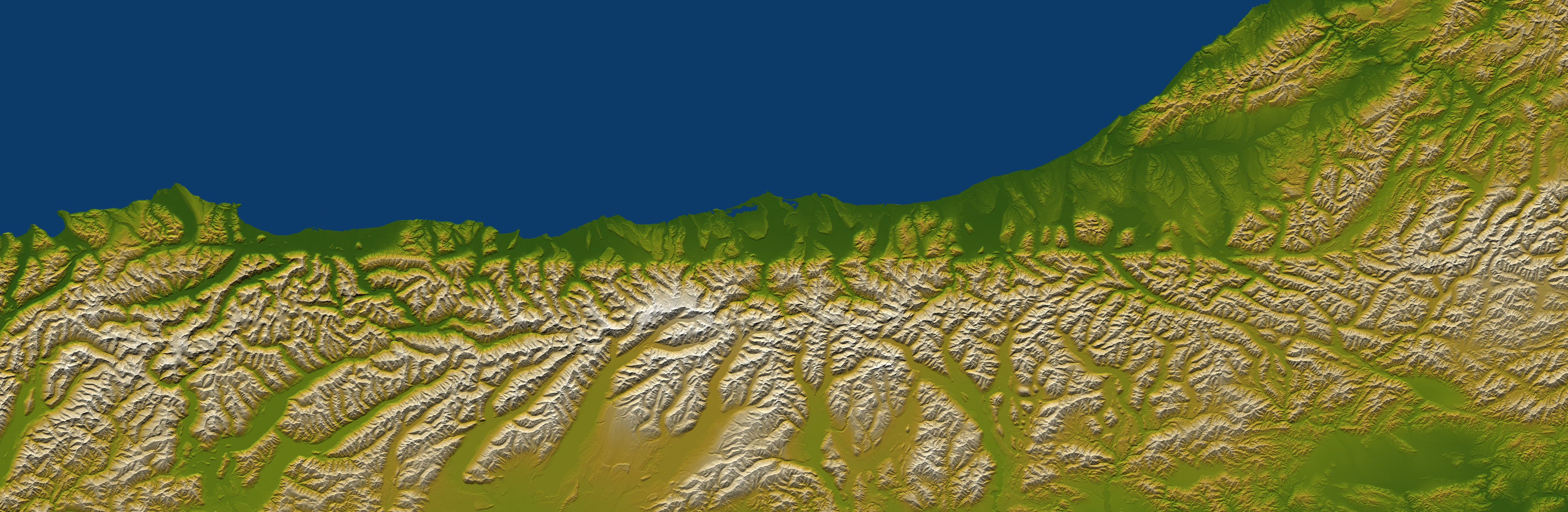 Shaded and colored image from the Shuttle Radar Topography Mission elevation model of New Zealand's Alpine Fault. Northwest is towards the top.